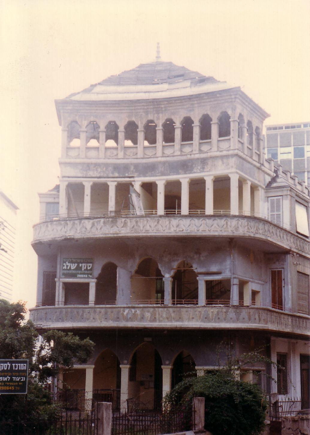 Pagoda House in Tel Aviv, before preservation